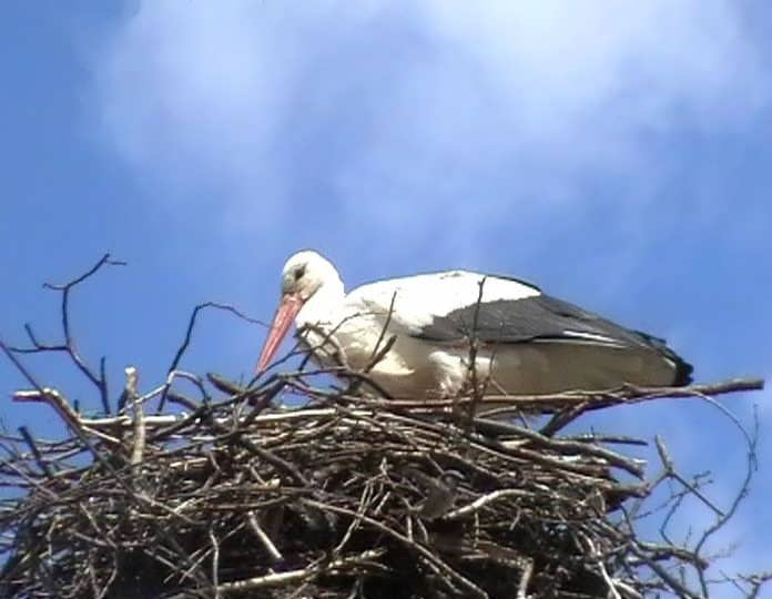 Stork in Kotliarka (Ukraine)